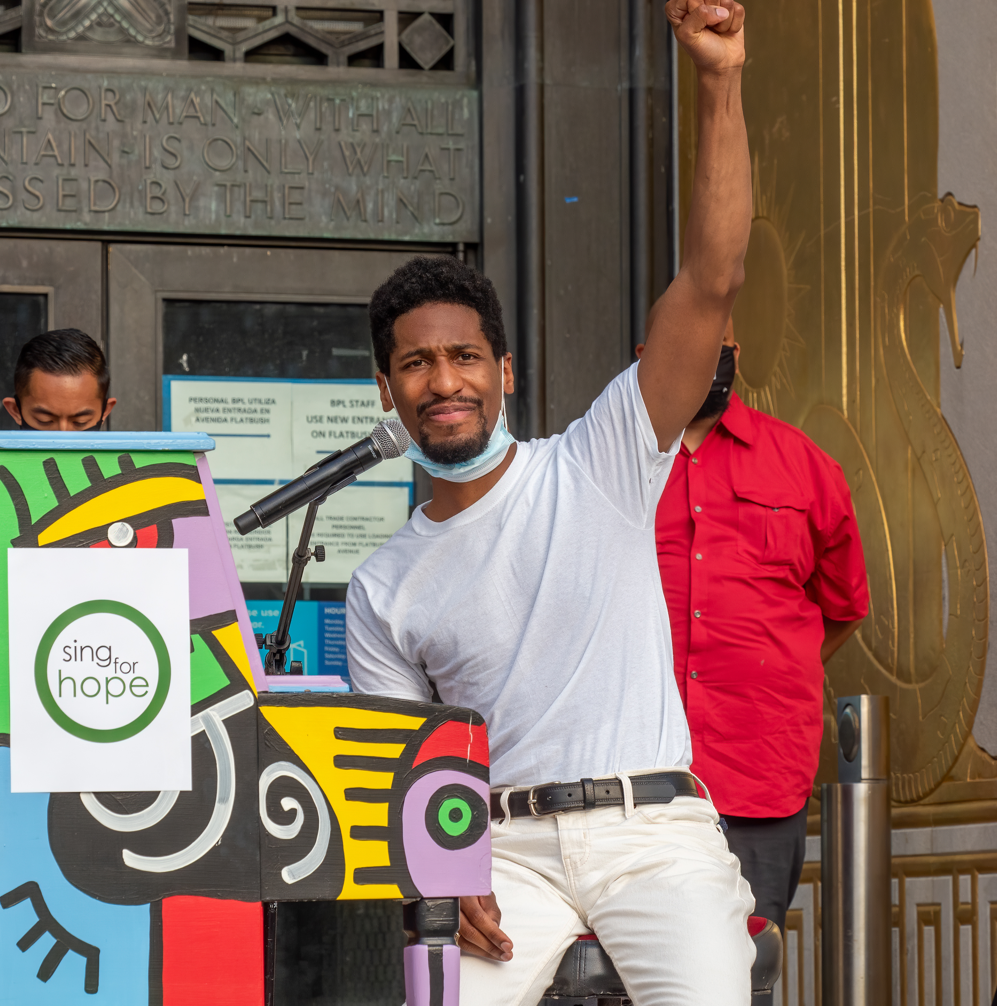 Musicians Jon Batiste and Matthew Whitaker playing piano and melodica for a "Juneteenth celebration + voter registration recital" called "We Are" on June 19, 2020. On the steps of the Brooklyn Public Library in Grand Army Plaza.